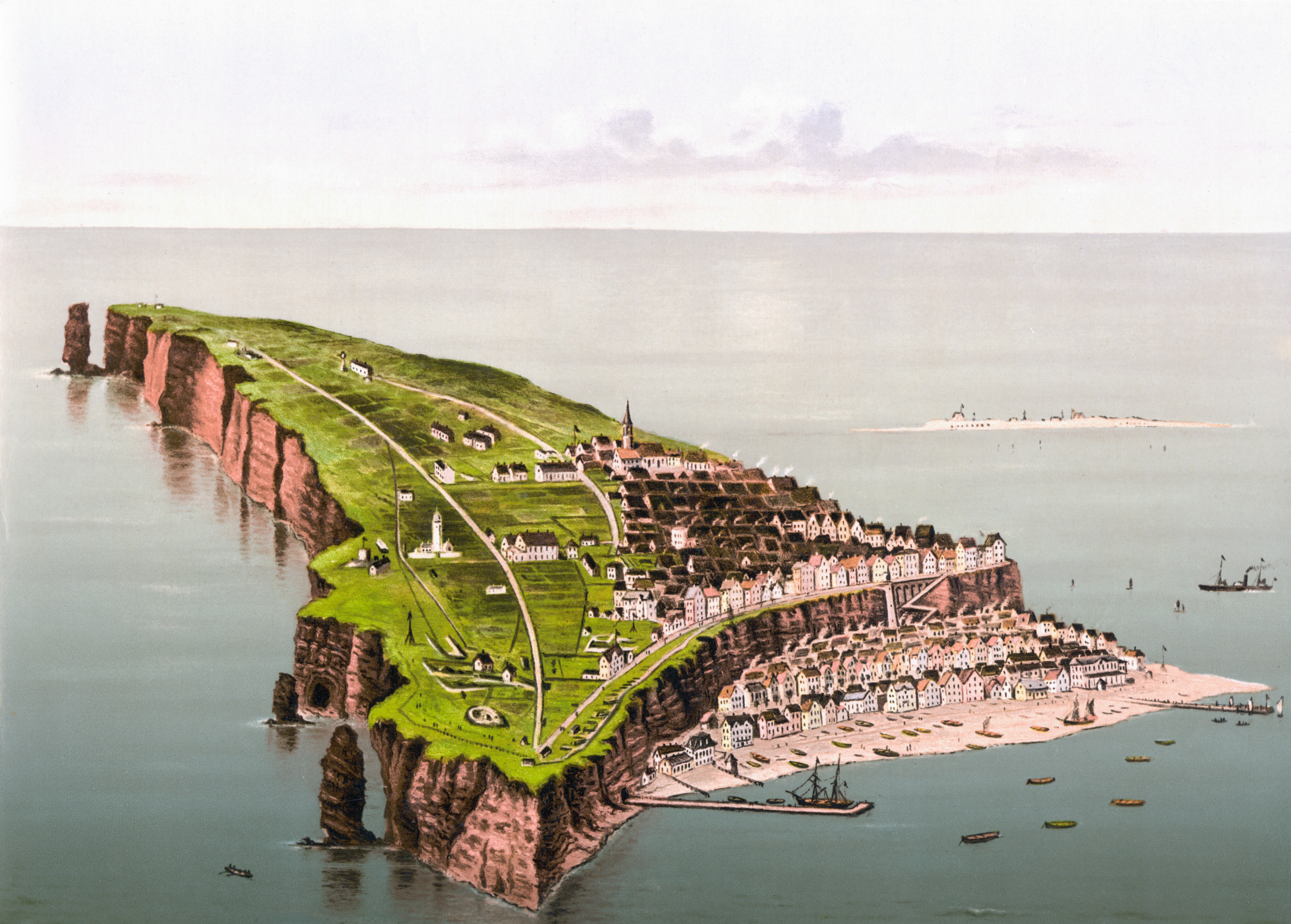 Birdseye view, Helgoland, Germany